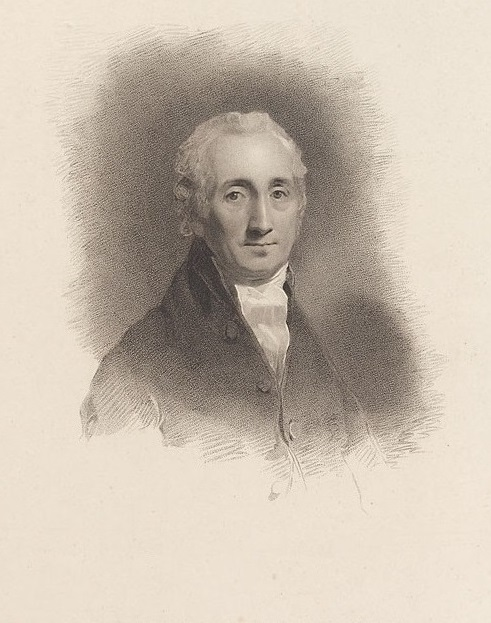 Portrait of The Hon. Alexander Fraser Tytler, Lord Woodhouselee, picture by H. Raeburn, A.R.A., drawn by J. Jackson, engraved by C. Picart, May 10, 1813.